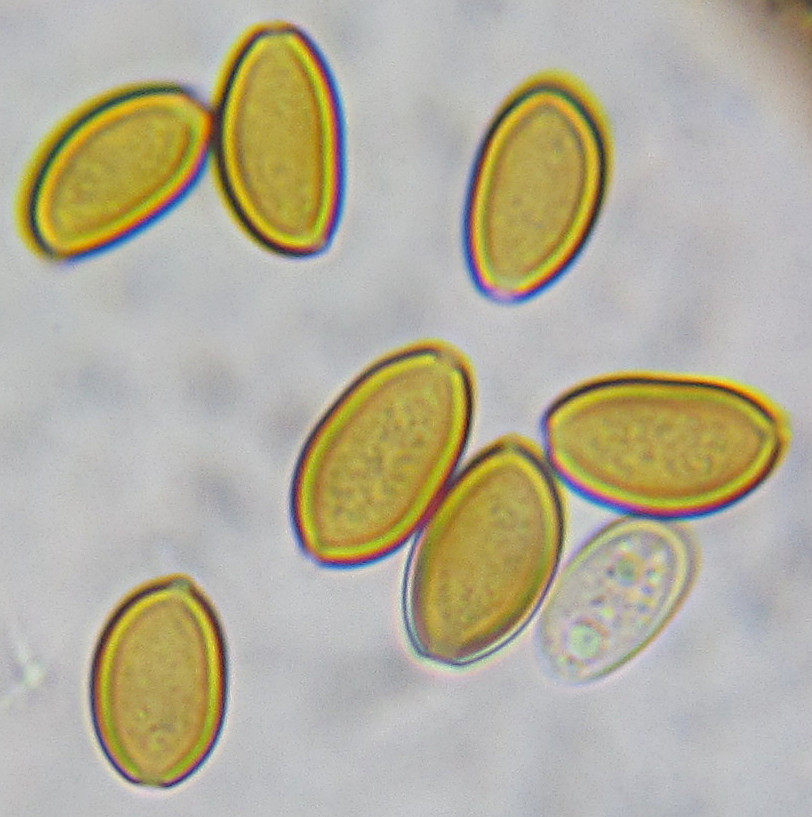 Spores of the agaric fungus Agrocybe putaminum (Maire) Singer. "Notes: Spores, 1000x, mounted in KOH"